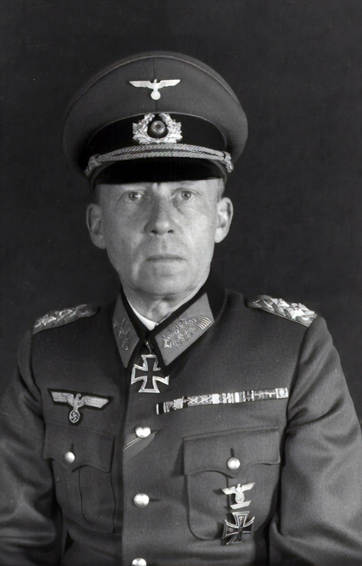 German Colonel General (generaloberst) of the Wehrmacht Gotthard Heinrici, later commander of Army Group Vistula